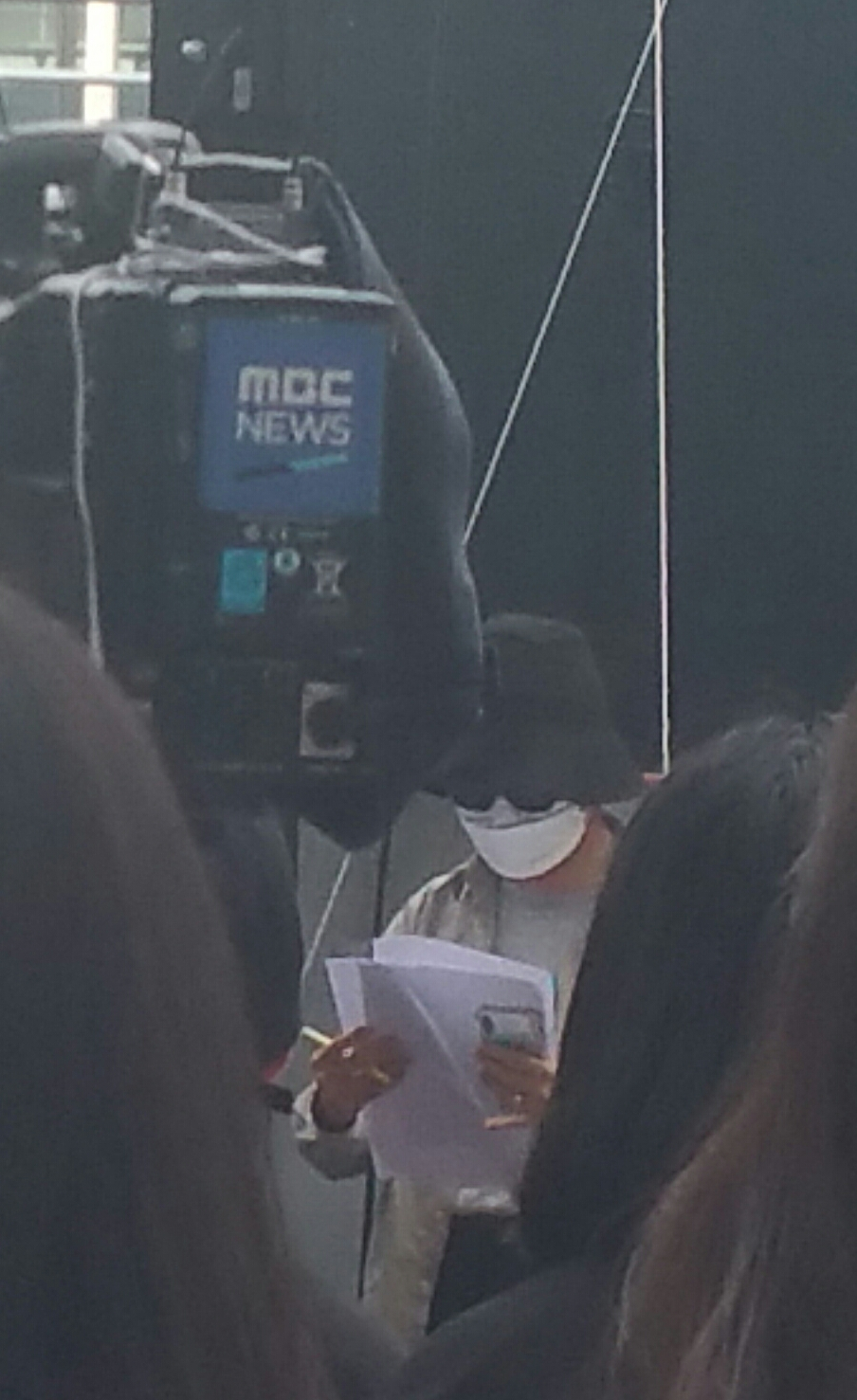 Burning Sun nightclub protest, Sinnonhyeon Station Exit 6, (Le Méridien Hotel), Gangnam-gu, Seoul, May 25, 2019. Cropped from the original which had unconsented people on the street.